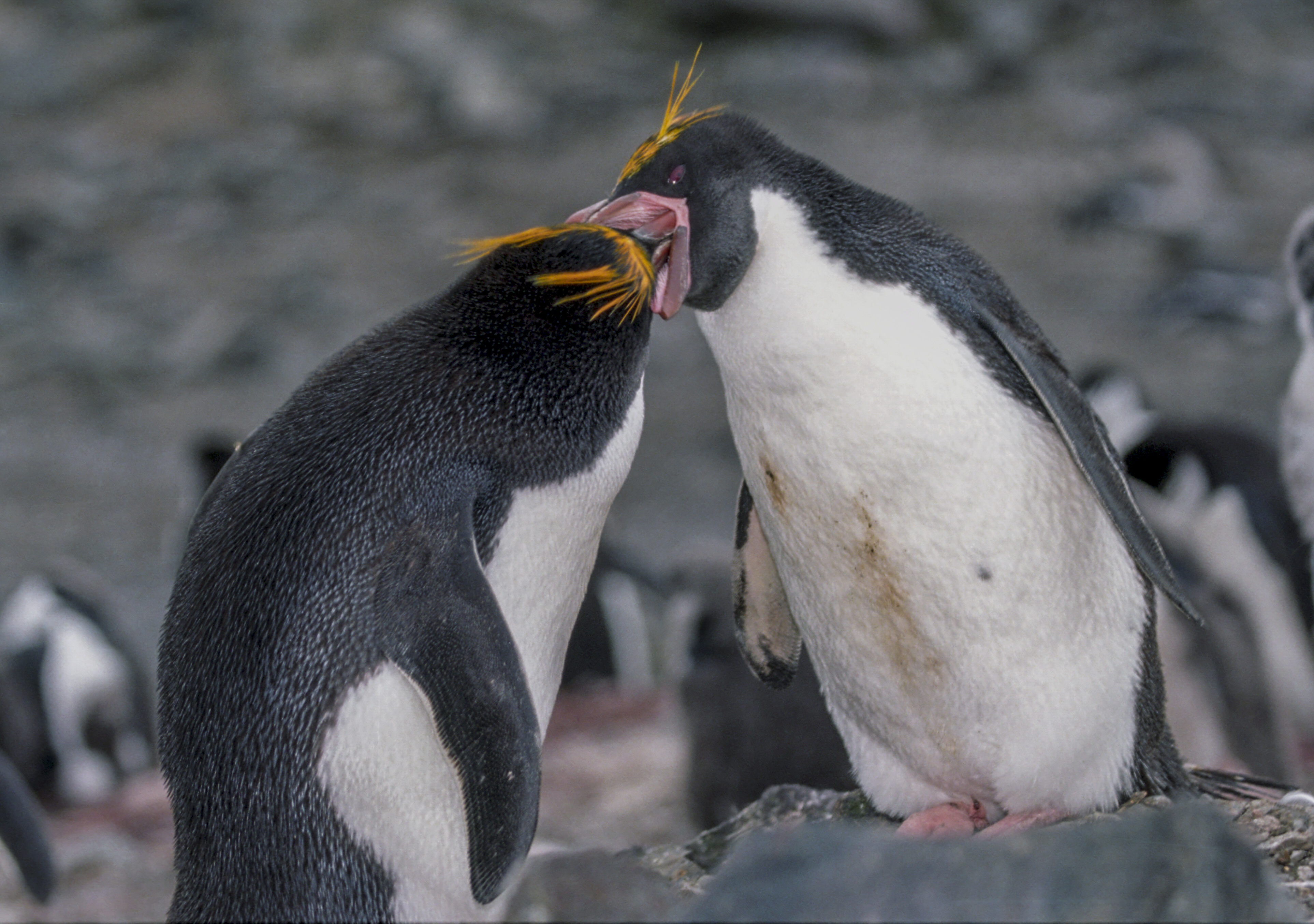 Macaroni Penguin, Hannah Point, Livingston Island: 62°39'S, 60°36'W, Antarctic Peninsula